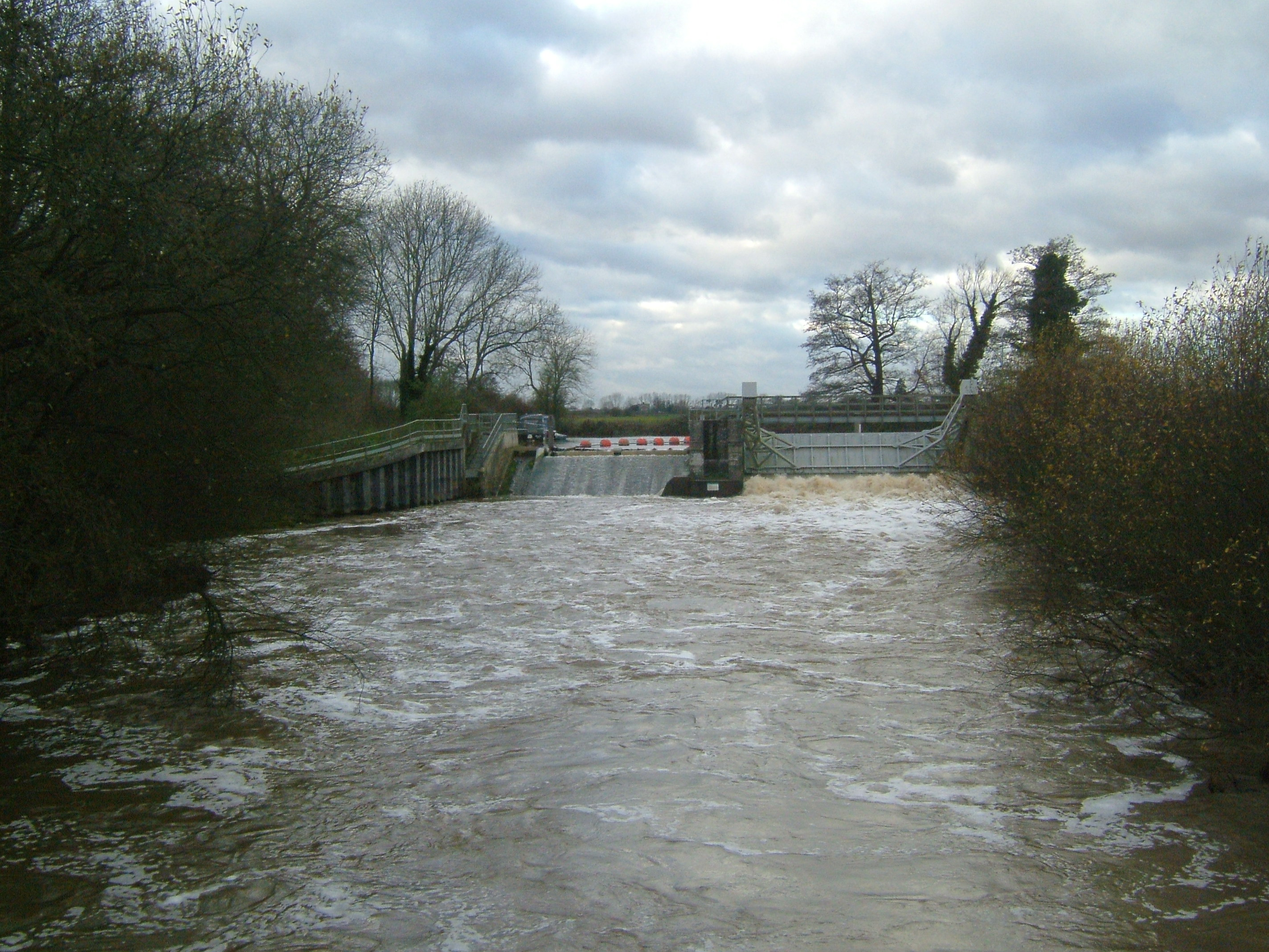 The River Medway in Kent, England, is made navigable as far as Tonbridge by a series of locks. At At Sluice Weir, the river drops from 12.86m to 10.12m. Sluice weir Lock is 18.8km above Allington. The sluice and weir.